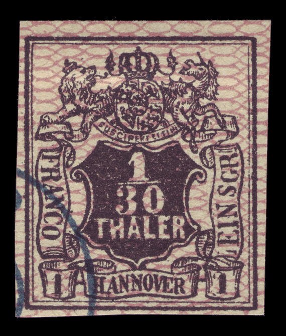 forgery stamp of one of the first stamps of Hannover